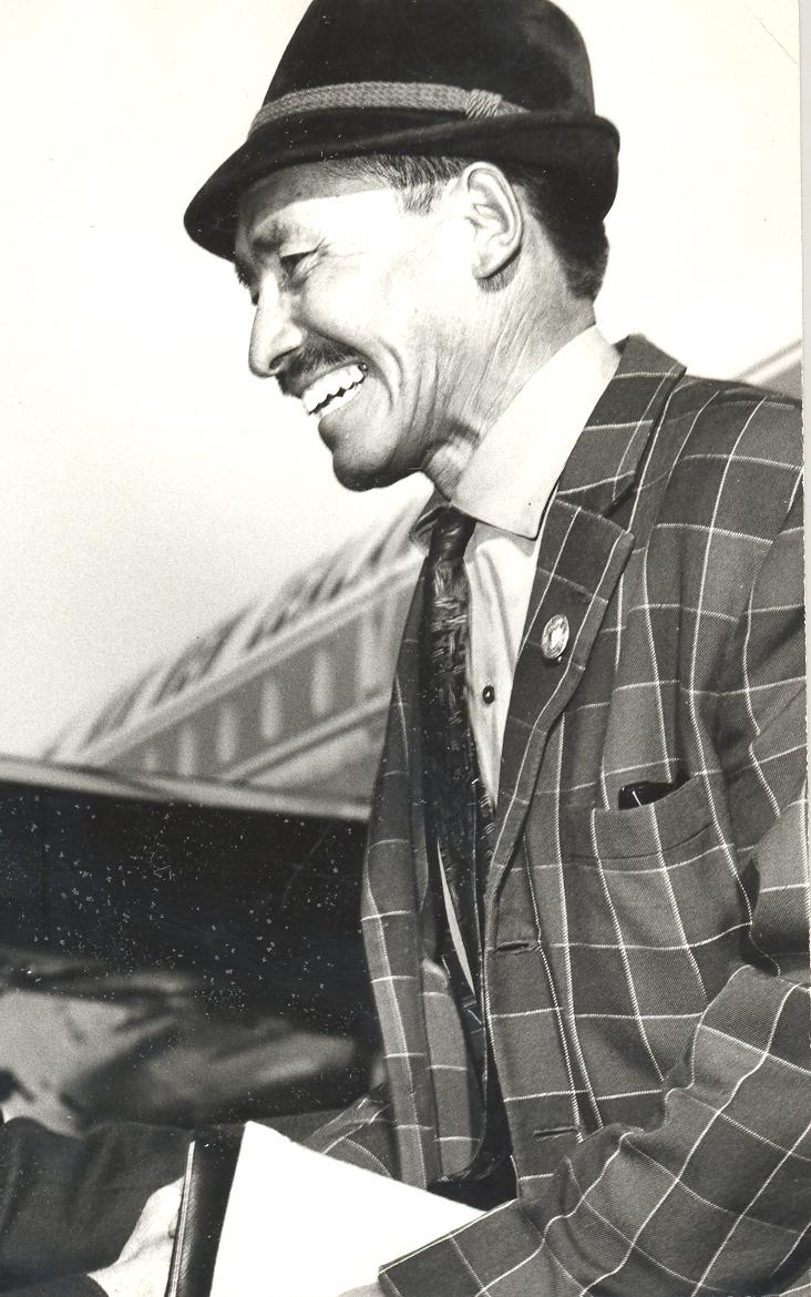 Tenzing Norgay, cropped. Circa 1971. Any use of this image must be accompanied by the credit “Horowhenua Historical Society Inc.”